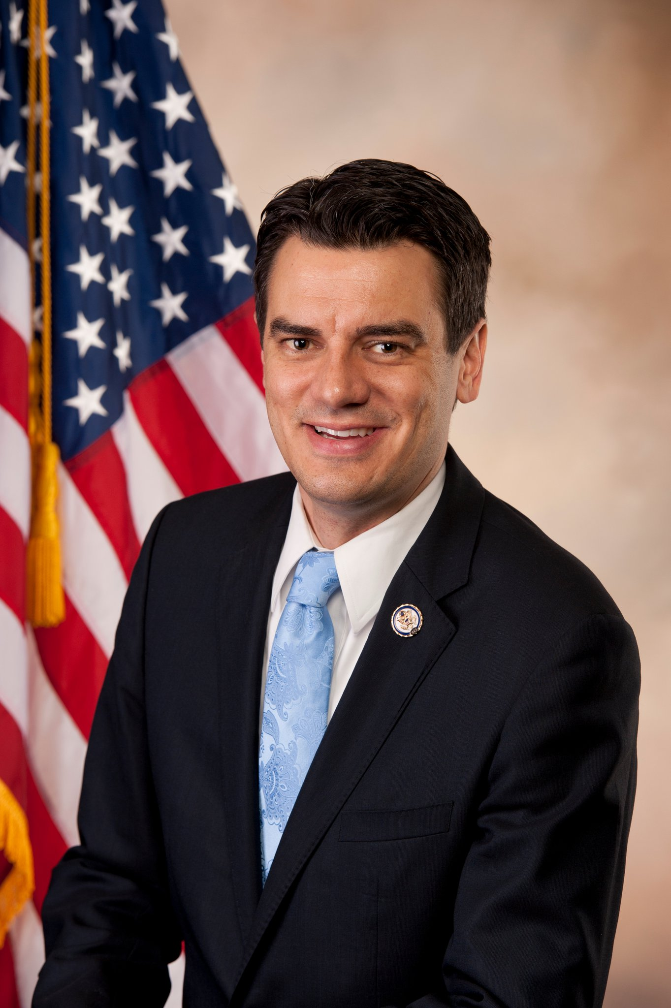 Official portrait of US congressman Kevin Yoder.